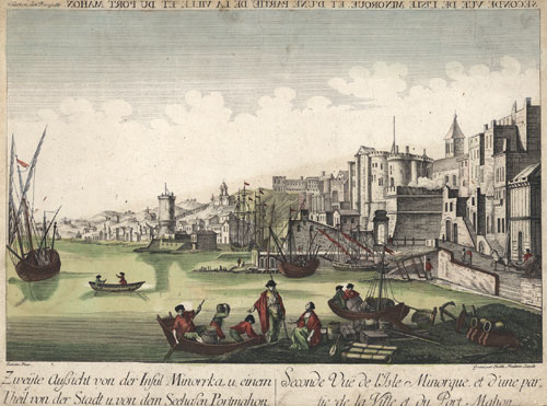 View of the island of Menorca and a part of the town and harbour of Mahón (= Maó); copperplate etching, colorized, 30 x 40,6 cm